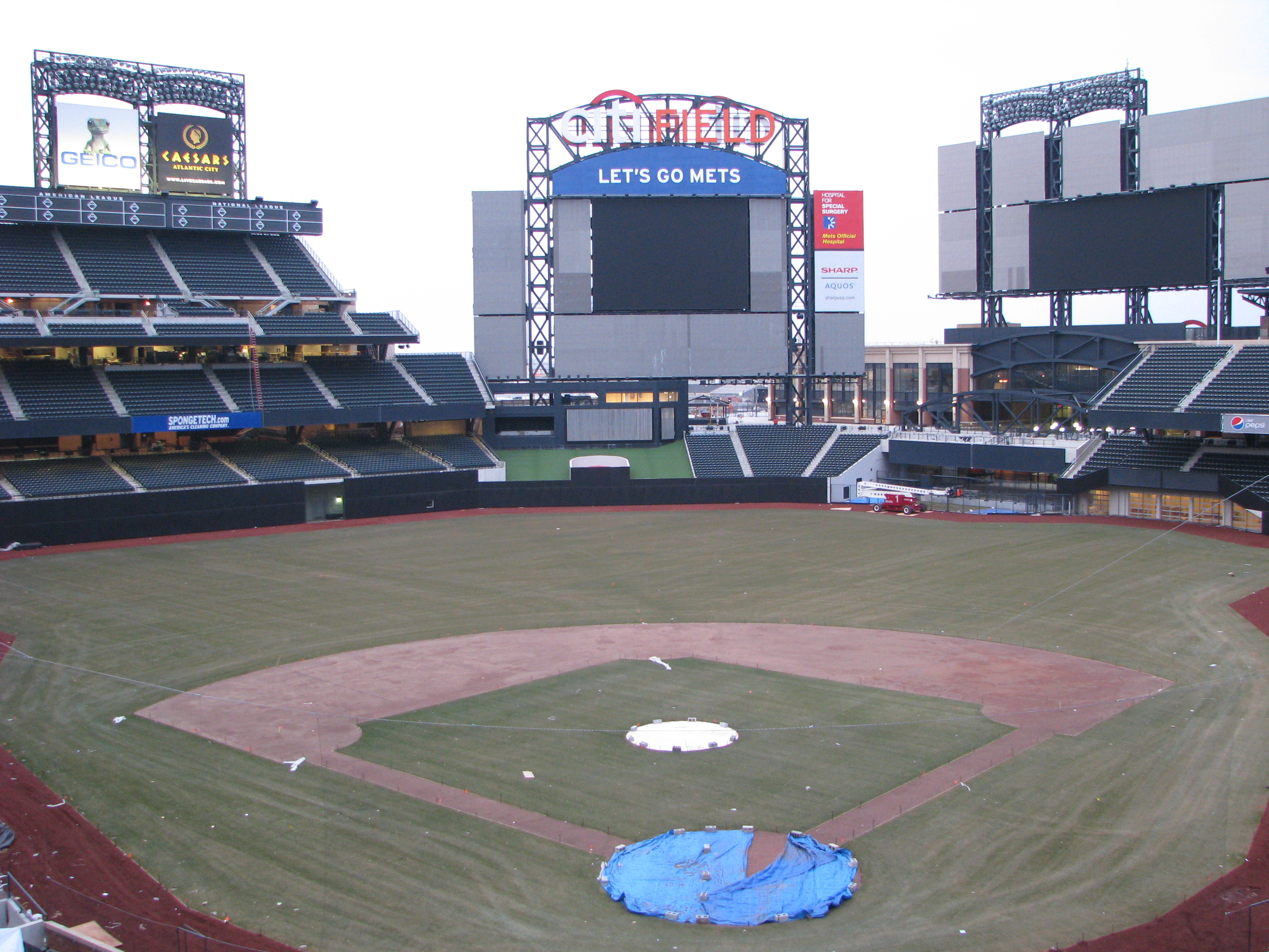 Citi Field. Taken from Caesars Club level.